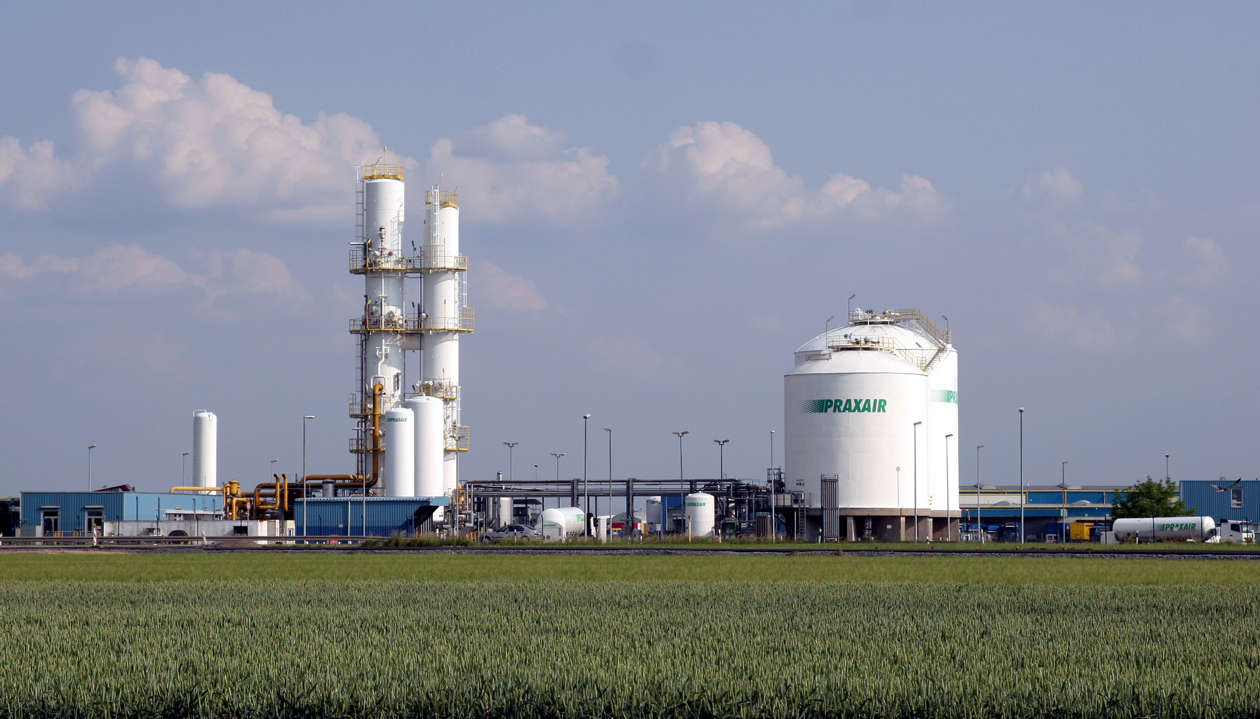 The German subsidiary of Praxair in Biebesheim (Hesse)